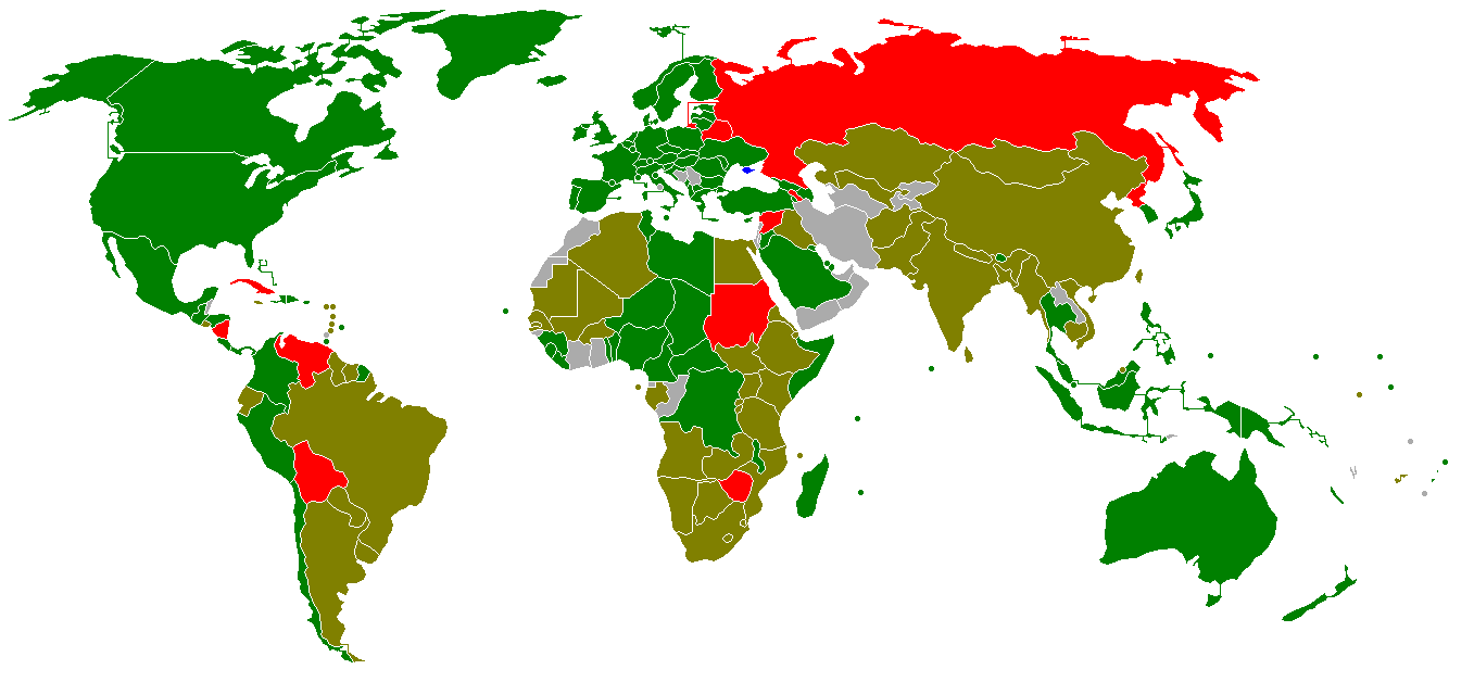 A map showing the votes of UN member states on United Nations General Assembly resolution 68/39 pertaining to the Crimean referendum to accede to the Russian Federation. Crimea is colored in blue.